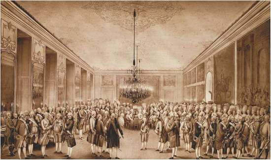 Interior from Christiansborg in Copenhagen, Denmark